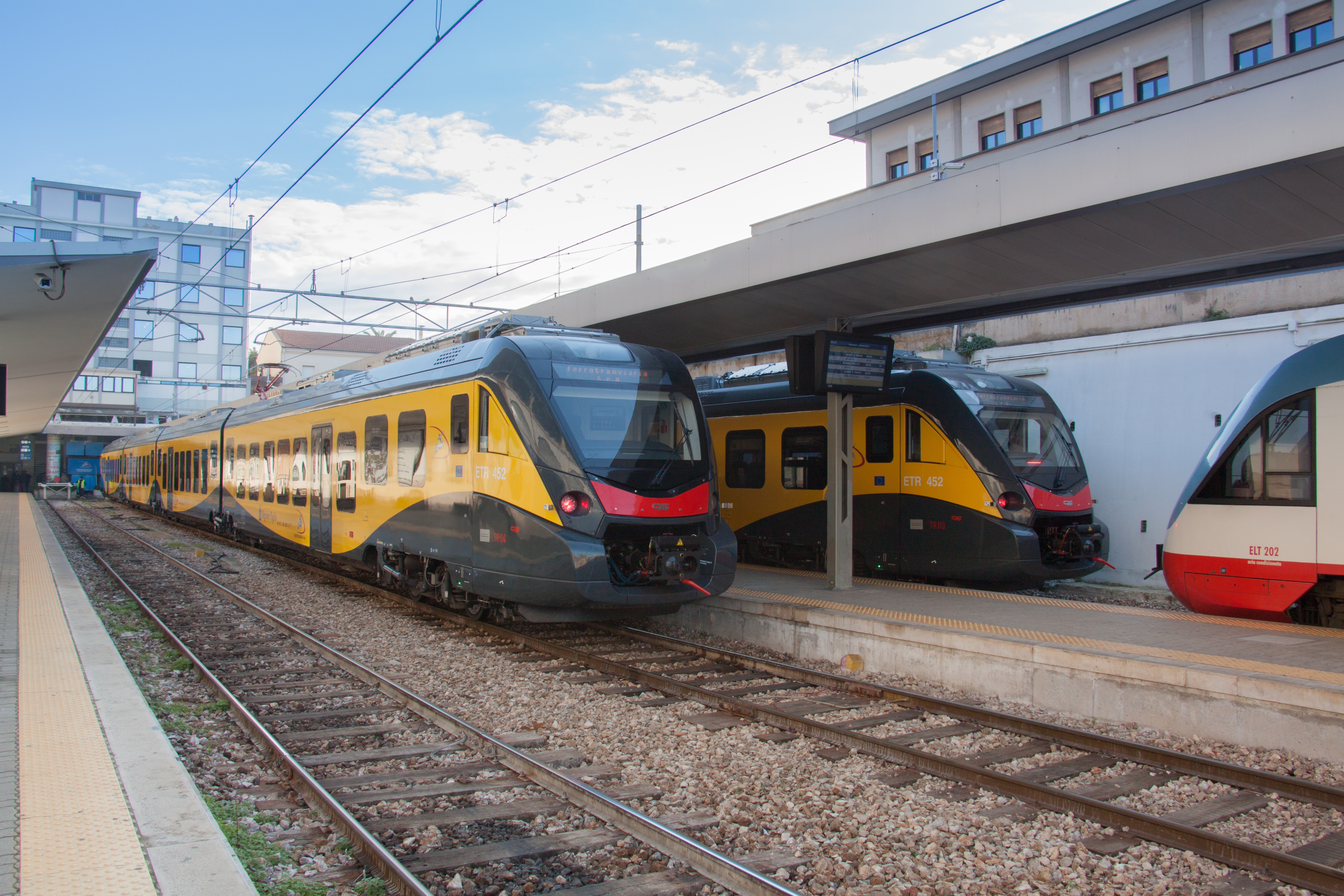 EMUs ETR 452 - sets TR04 and TR03 during press presentation in Bari Centrale station of FT railways.